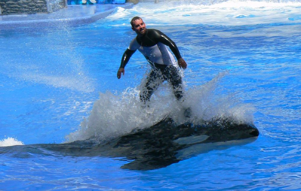 Dave "surfing" on top of Katina, the matriarch Orca at SeaWorld Orlando. SeaWorld requires its trainers to use the orcas as surfboards in its shows, something which is illegal in the United States. SeaWorld continues to flout the federal law.